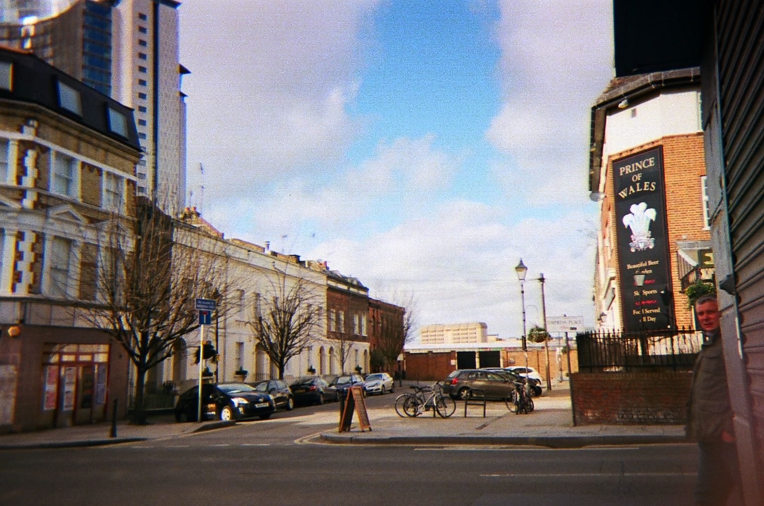 Mid-Victorian cul-de-sac, designed by John Young (1797-1877) in Fulham